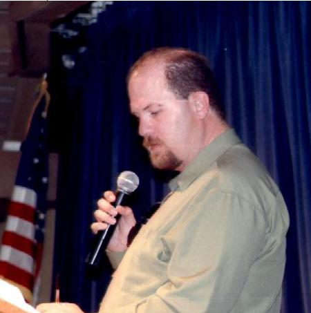 James R. Norwood conducting the annual Spelling Bee at Badger Springs Middle School on March 18, 2008.